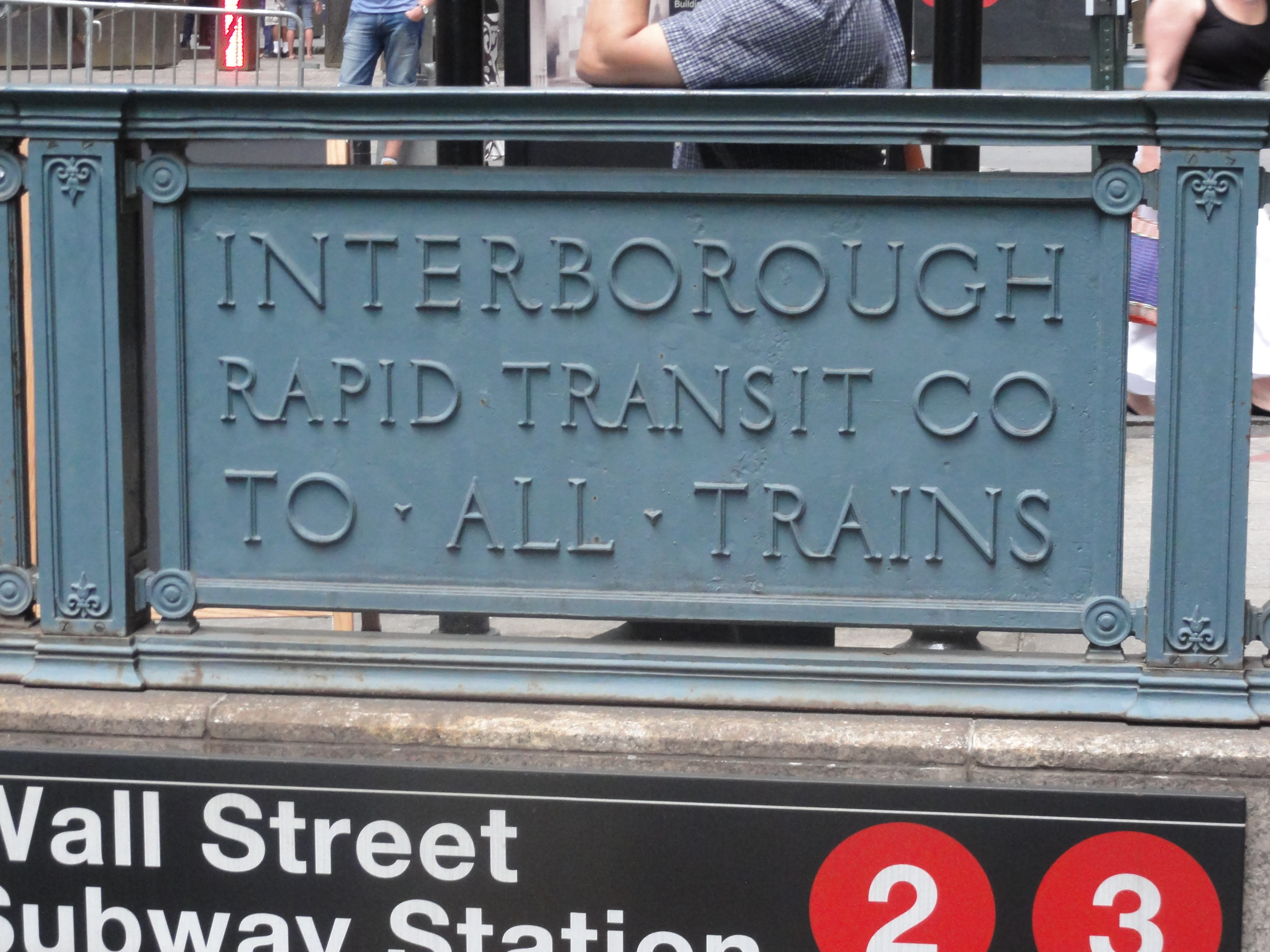 An Old sign for the IRT at the Wall Street 2/3 stop.